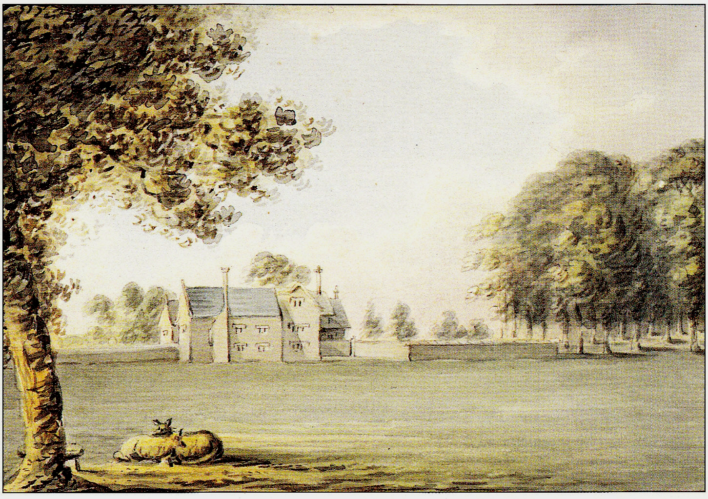 Watercolour of Cowick House, Exeter, Devon, by Rev. John Swete undated, c.1801. Devon Record Office 564M/F1/221. Published in Gray, Todd (Ed.), Travels in Georgian Devon: The Illustrated Journals of the Reverend John Swete, 1789-1800, 4 Vols., Vol.1, 1998, Tiverton, p.54